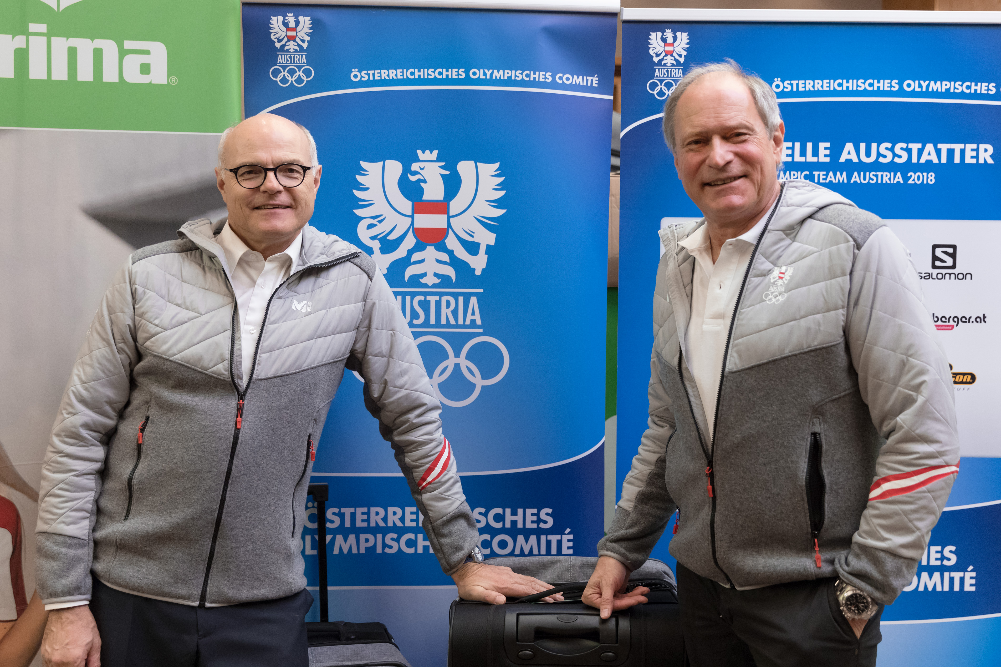 Karl Stoss and Peter Mennel at the outfitting of the Austrian team for the 2018 Winter Olympics (Hotel Marriott in Vienna, Austria.